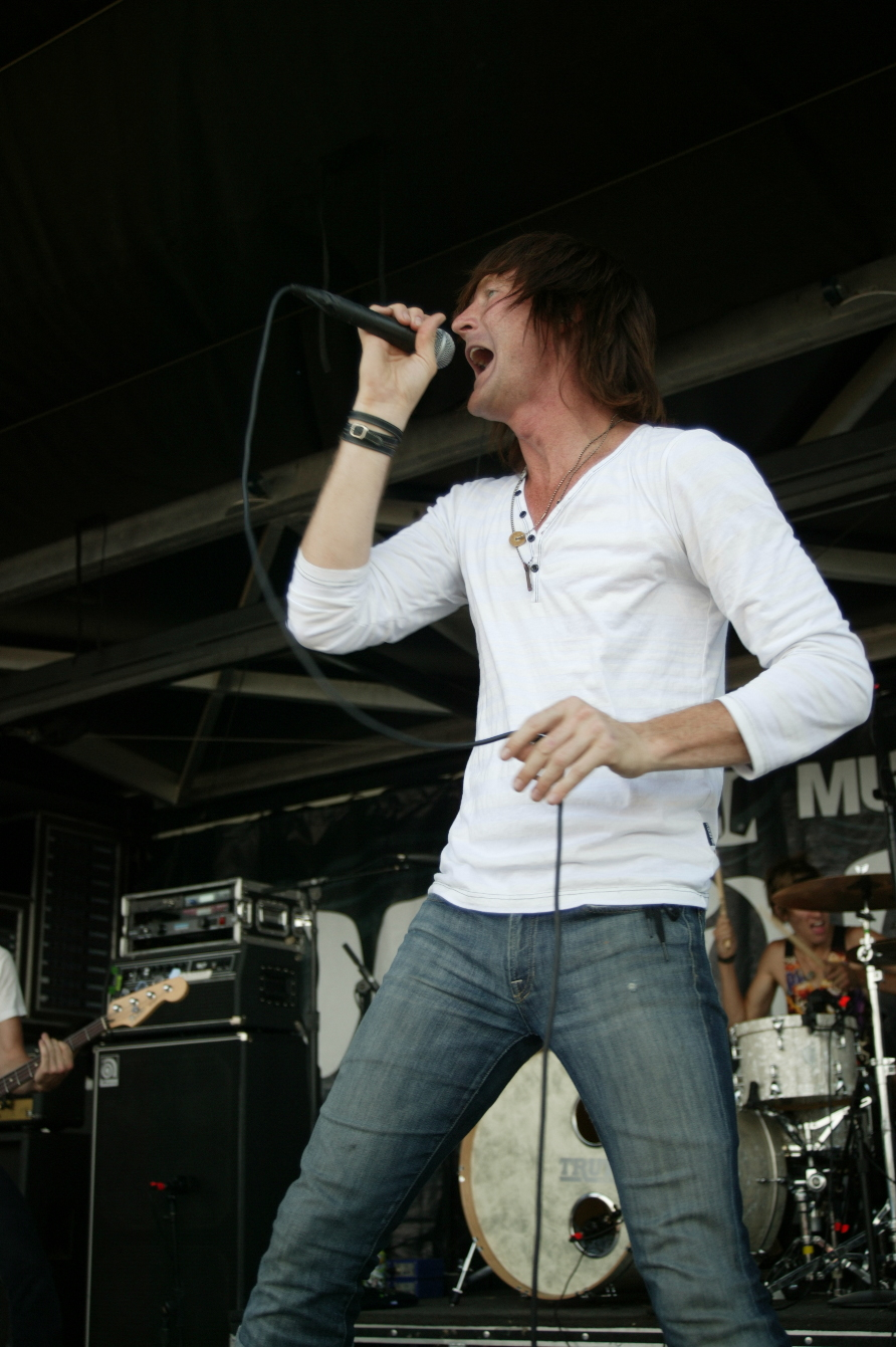 Anberlin, Las Cruces NM 12JUL07, photograph by John Kloepper